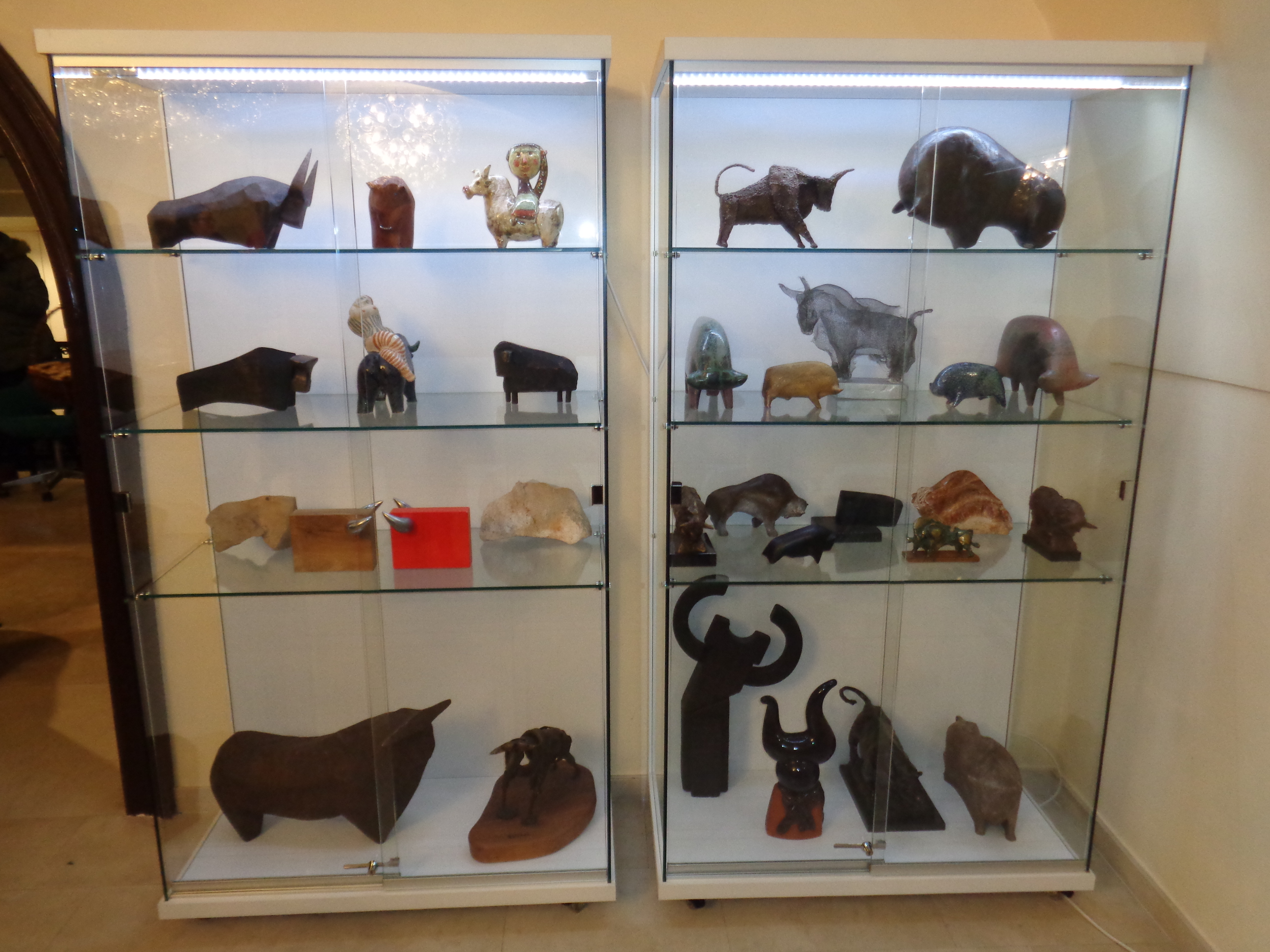 Night of museums 2019. in Čakovec (Croatia) - showcase with the statues of bulls